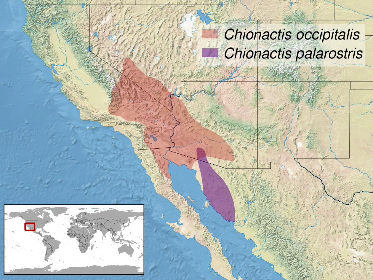 geographic distribution of the genus Chionactis (Native: Mexico; United States). Included species for RDB: Chionactis occipitalis and Chionactis palarostris.